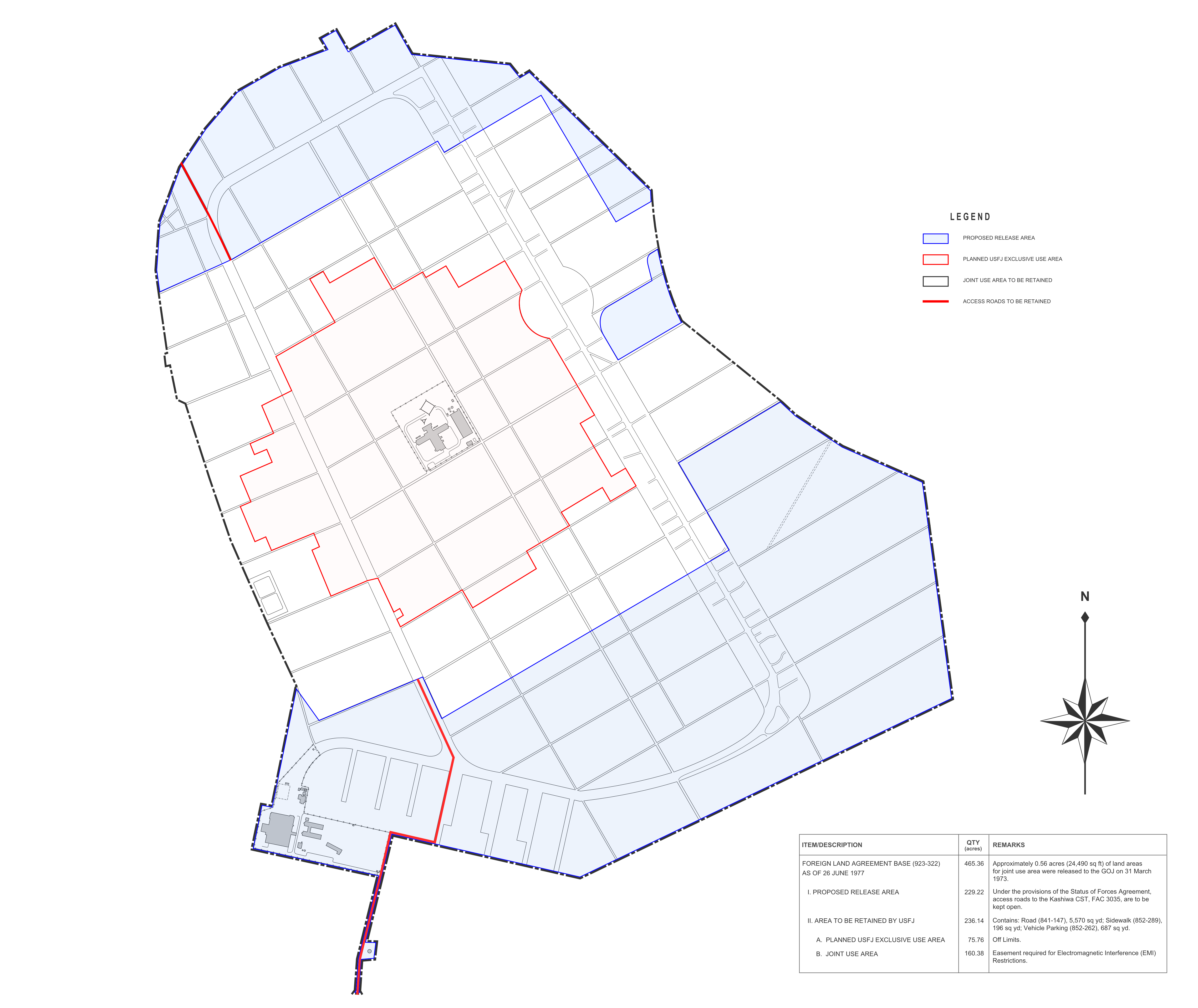 Plot Plan, USAF Kashiwa Communications Station (1977): With the cessation of 440L OTH-F radar operations at Tokorozawa (Saitama Prefecture, Japan), the Air Force decided to functional relocation and closure of Kashiwa site. All HF services were successfully cut over from Kashiwa to Tokorozawa by 29 December 1975, and Kashiwa CST was formally inactivated on 1 February 1976. As a result, 229.22 acres of land at the site were partially released to the GOJ on 30 September 1977. The remainder 236.14 acres were transferred from the Air Force to the Coast Guard Far East Section (headquartered at Yokota AB) as a site of a new LORAN station for the purpose of achieving a LORAN-guided all-weather/night air strike capability in Korea (Commando Lion Project). However, the Radio Regulatory Bureau of the Ministry of Posts and Telecommunications (GOJ) advised USFJ that due to numerous electromagnetic compatibility problems it was not feasible to authorize an operating frequency for LORAN at Kashiwa. The U.S. abandoned plans to construct a LORAN station at Kashiwa and completely released this installation to the GOJ on 14 August 1979.